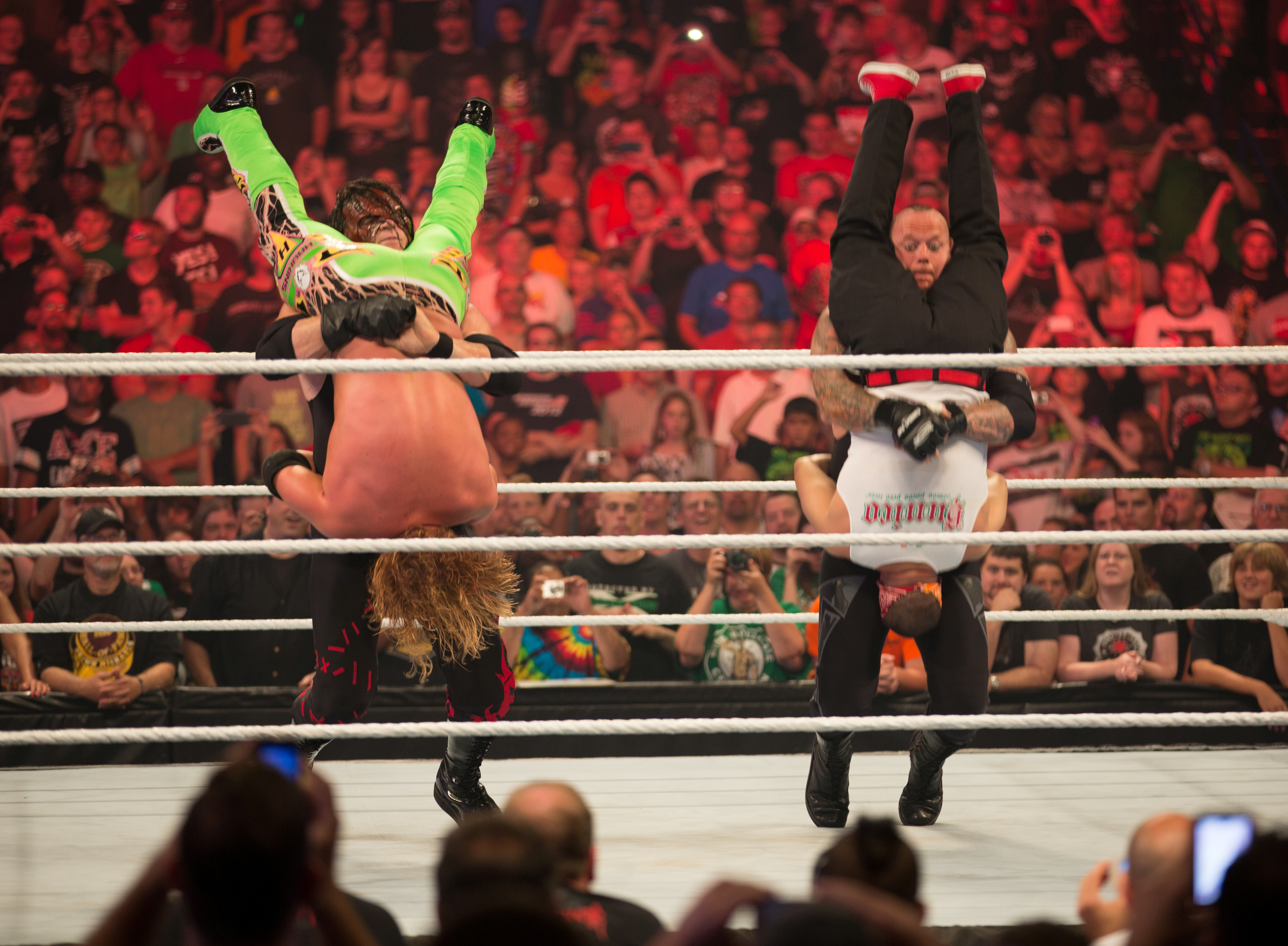 The Brothers of Destruction (Kane and the Undertaker) deliver simultaneous Tombstone Piledrivers to Curt Hawkins and Hunico on Raw 1000.